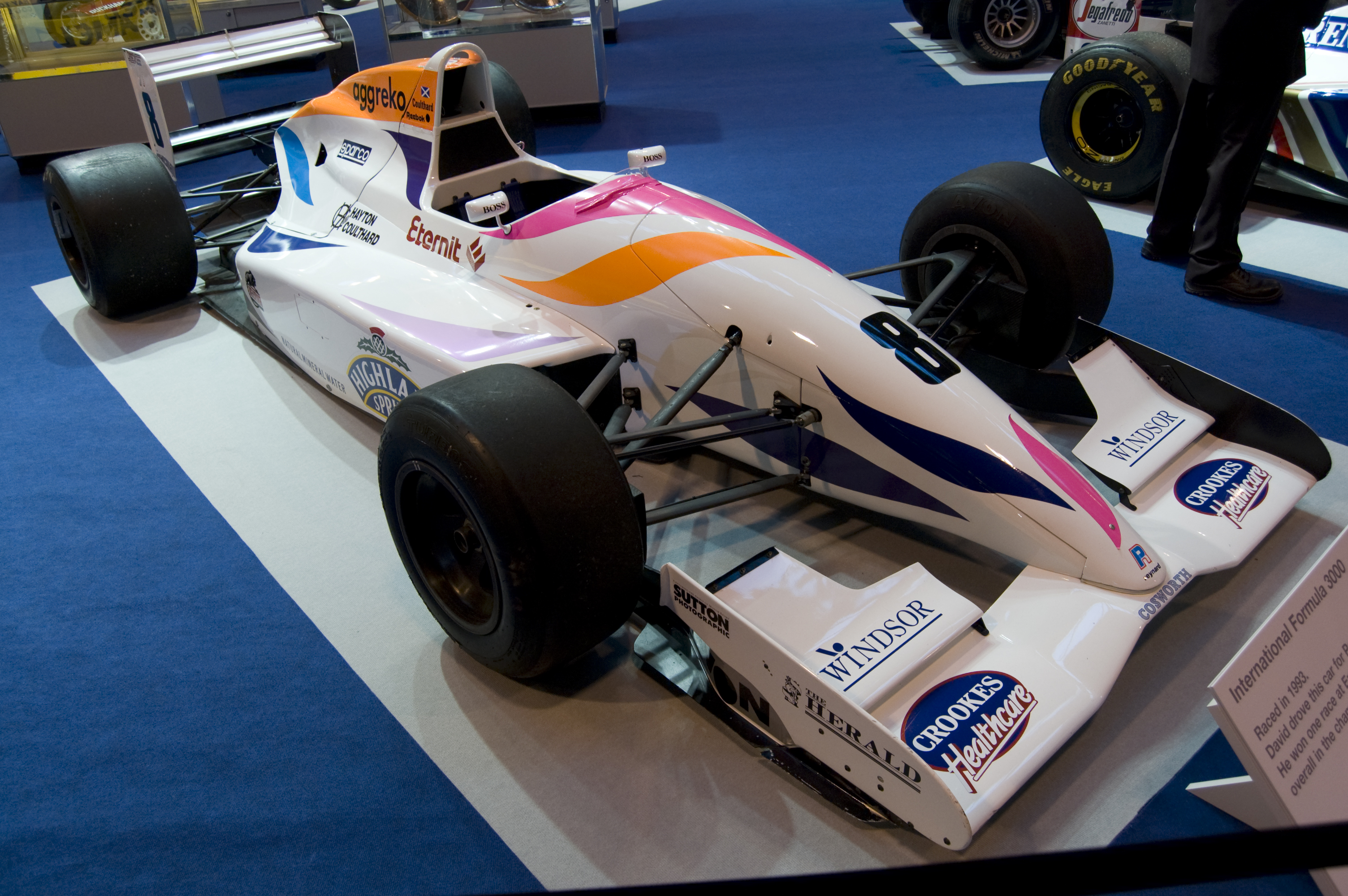 David Coulthard's Pacific Racing Formula 3000 car (1993 Reynard 93D-Ford Cosworth) Exhibited at the Autosport International show. Coulthard placed third for Pacific Racing in the 1993 FIA International Formula 3000 Championship.